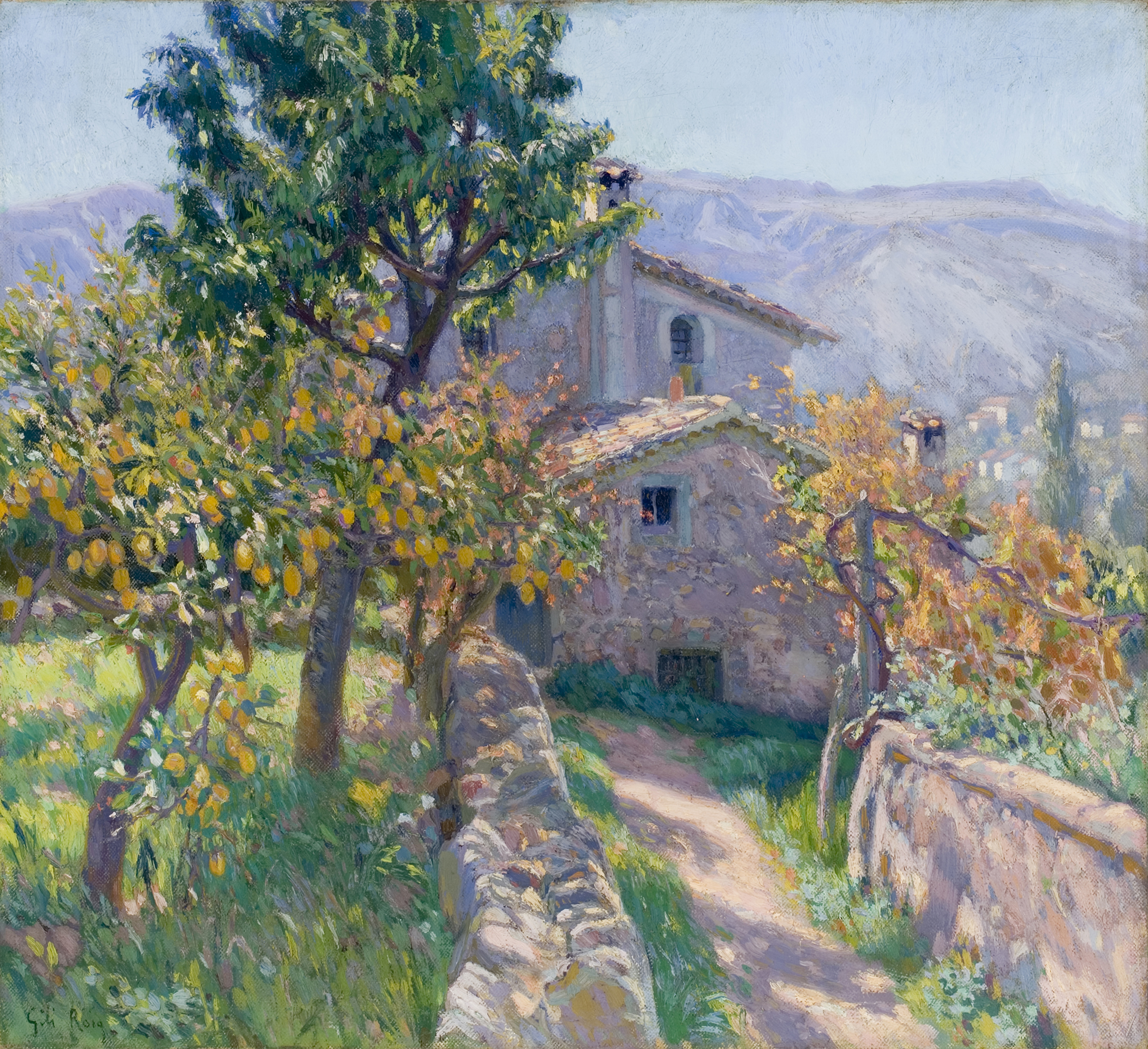 Ermita de muntanya, artwork by Catalan painter Baldomer Gili i Roig (1873-1926)